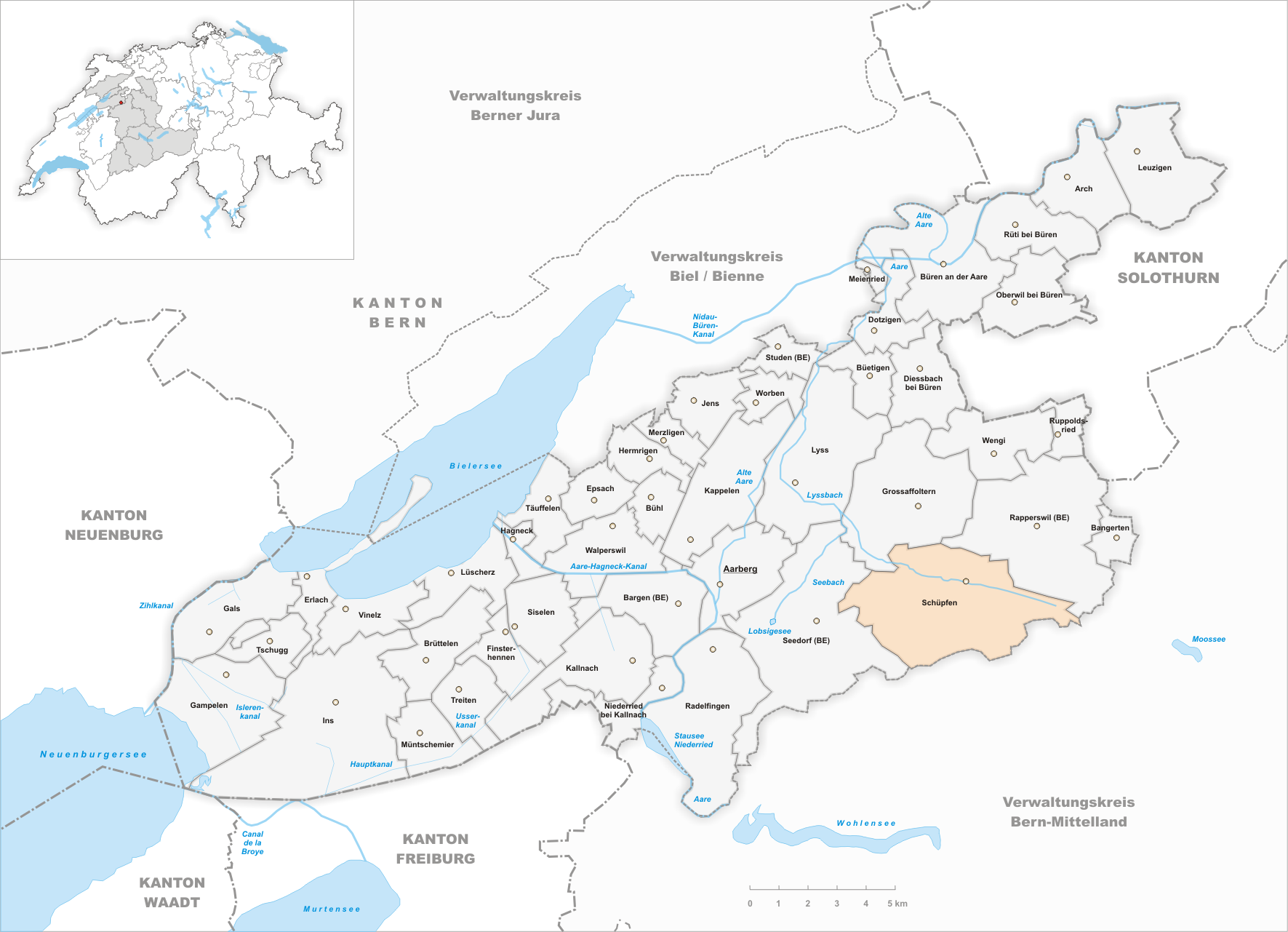 Municipality Schüpfen